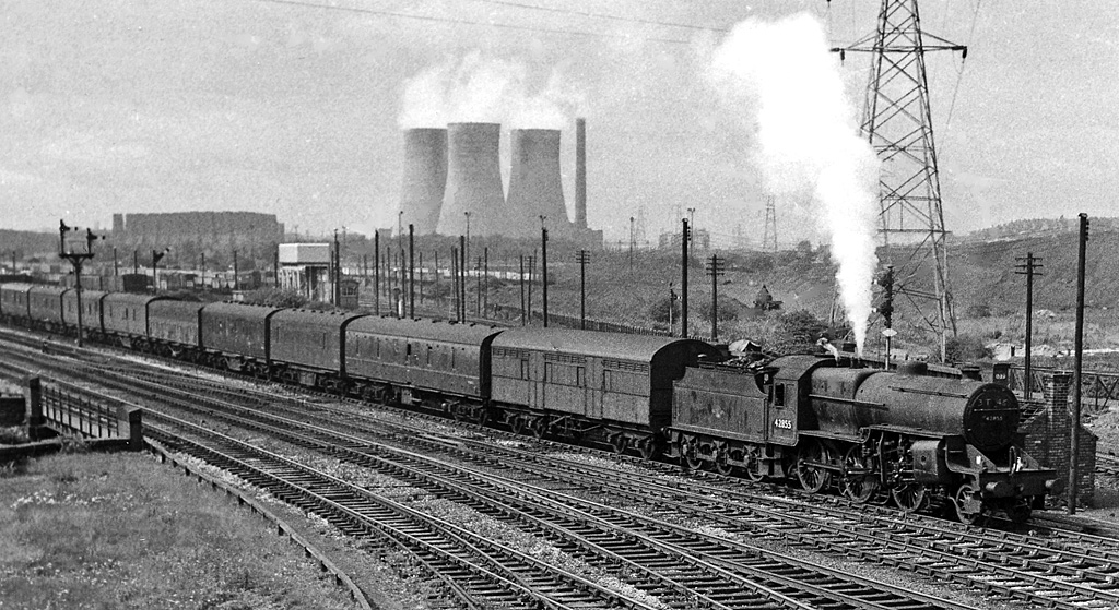 A view NW from Bromford Lane bridge at the east end of the Washwood Heath Yards. An Up Parcels train (headed by Hughes/Fowler 5P4F 2-6-0 No. 42855) on the ex-Midland Birmingham - Derby etc. main line is approaching Bromford Bridge Station. Beyond the railway is the far eastern end (Up side) of the vast Washwood Heath Yards and further over is Nechells Power Station. Nowadays - over 48 years later - this scene is dominated by the great M6 Motorway: see for example SP1189 : Washwood Heath Viaduct and SP1189 : Washwood Heath railway sidings.